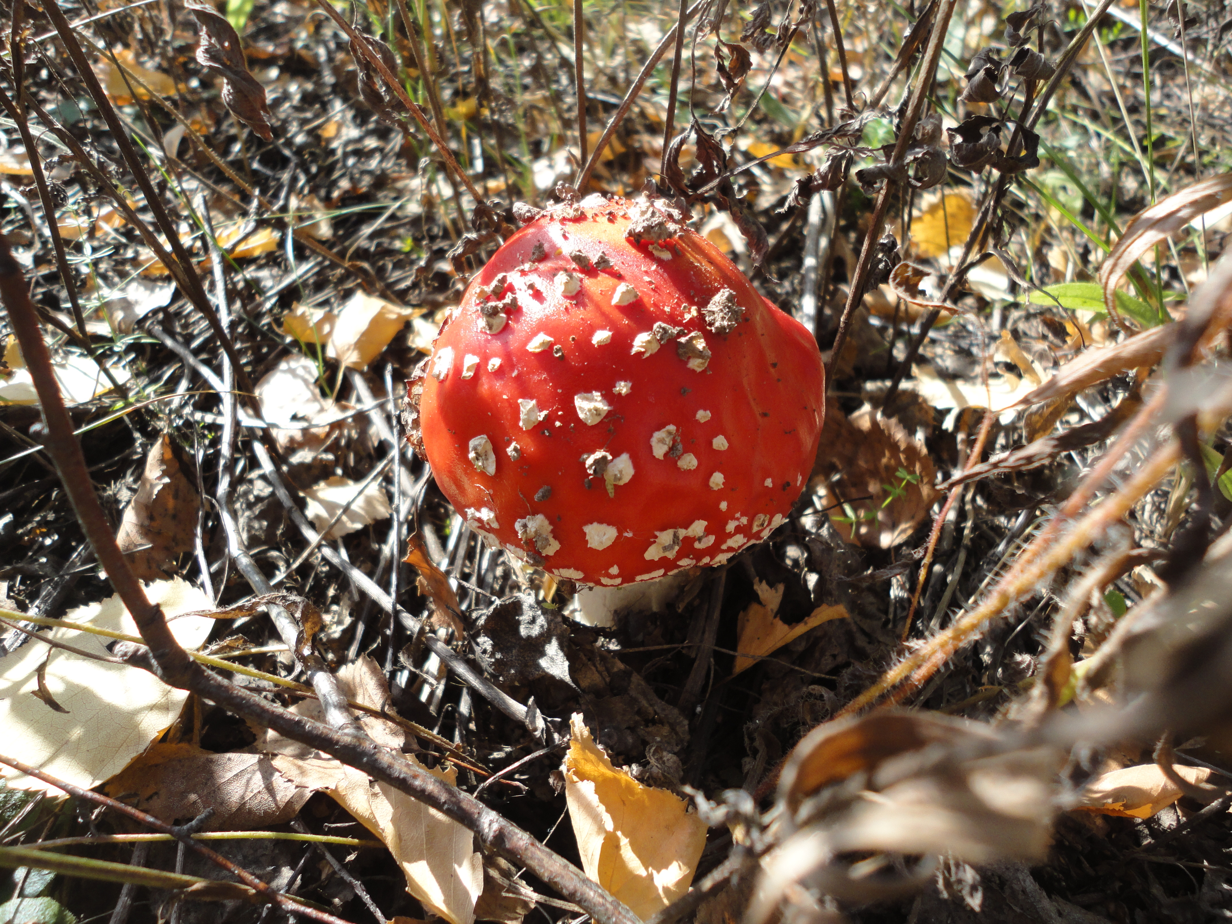 Photo taken in Kazan, Russia